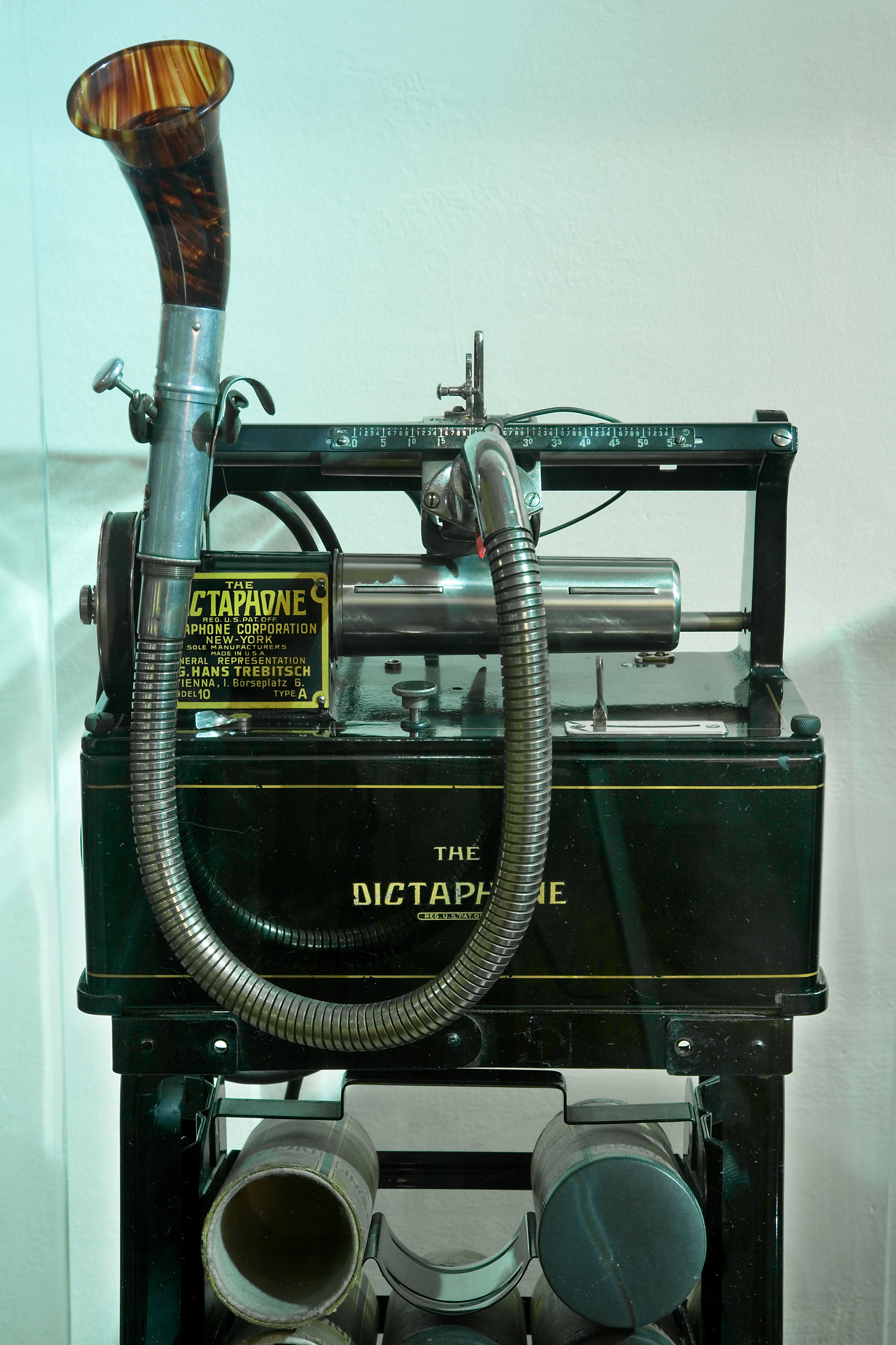 Dictaphone. Dictaphone Corporation, New York around 1920. Technisches Museum, Vienna, Austria.